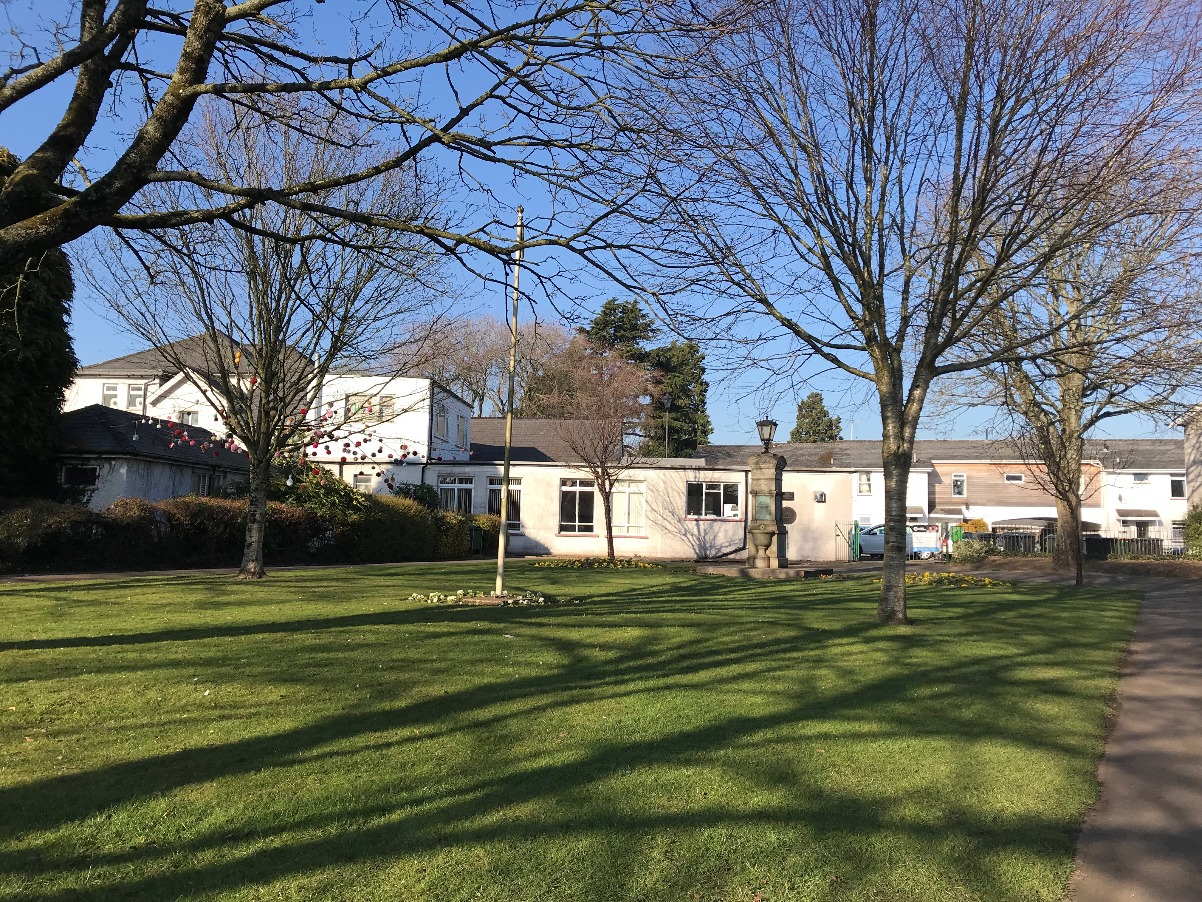 The War Memorial Garden, in the town of Caerleon, Wales, which was erected 1921 in remembrance of the men who died in the 1914-1918 Great War and the 1939-1945 Second World War.